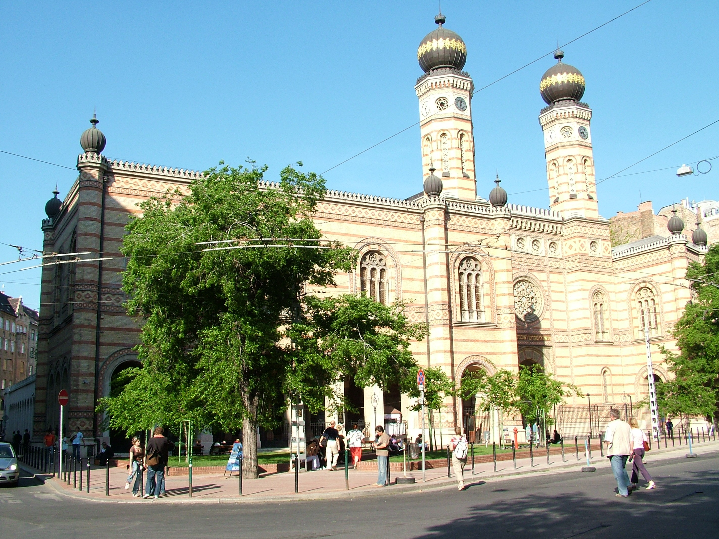 Dohány Street Synagogue or Great Synagogue (Dohány utcai Zsinagóga/Nagy Zsinagóga) in Budapest is the largest synagogue in Europe and the second largest in the world, after the Temple Emanu-El in New York City.